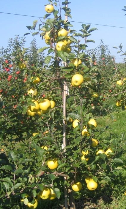 Tree of apple cultivar Gold Bohemia, secondary mutation of Rubin